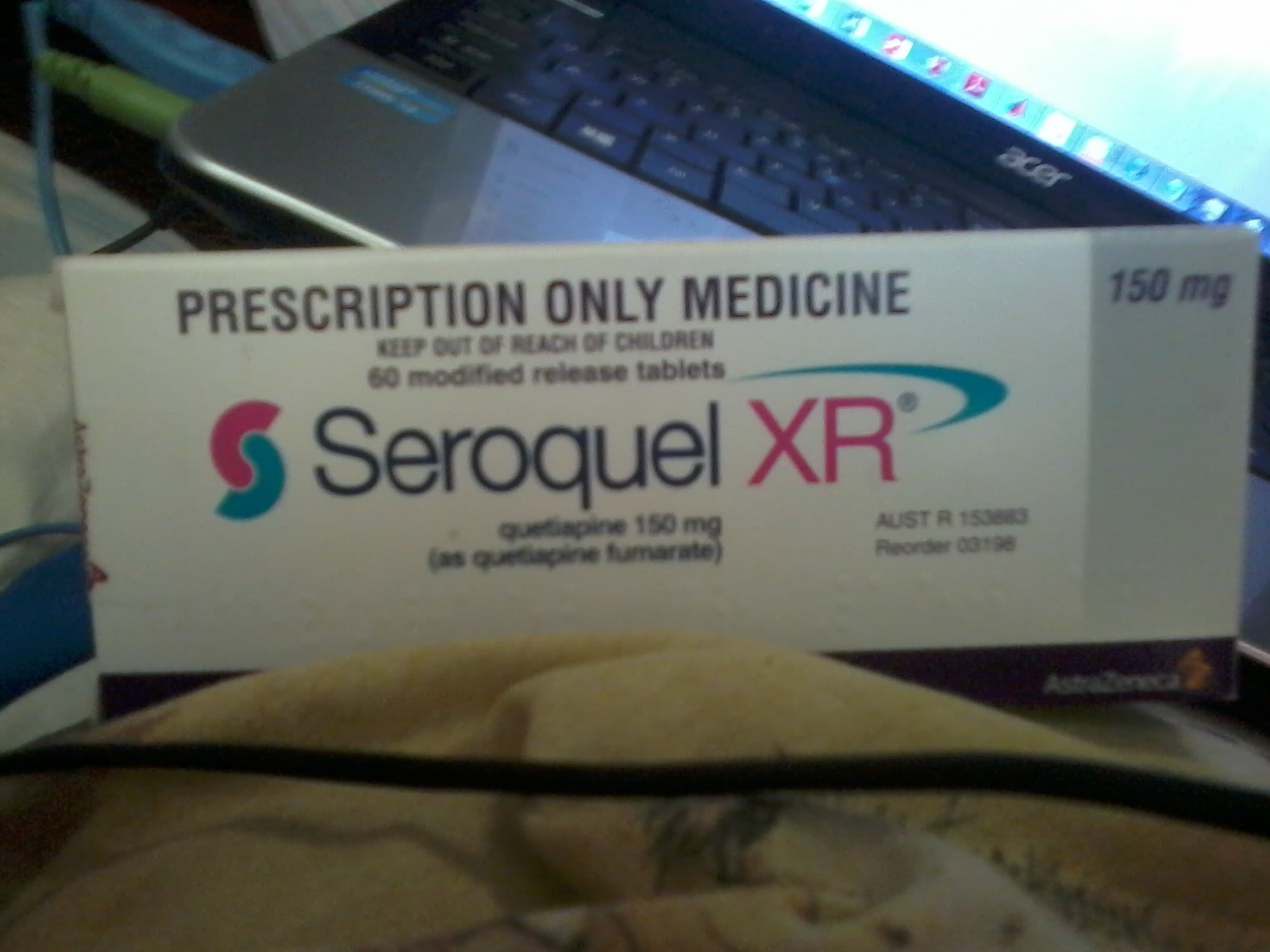 Seroquel XR 150 mg photo.